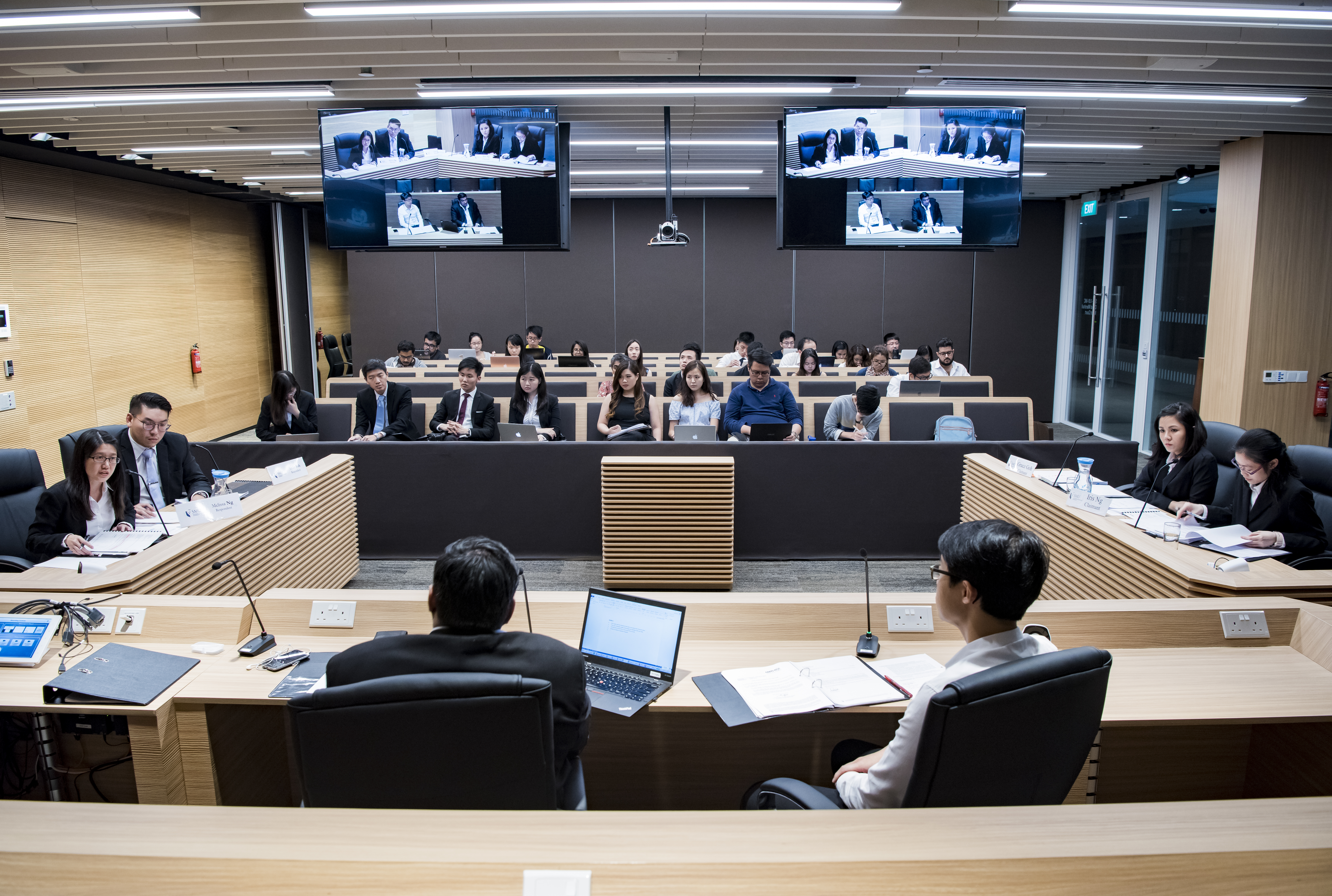 singapore management university school of law david marshall moot court 2017